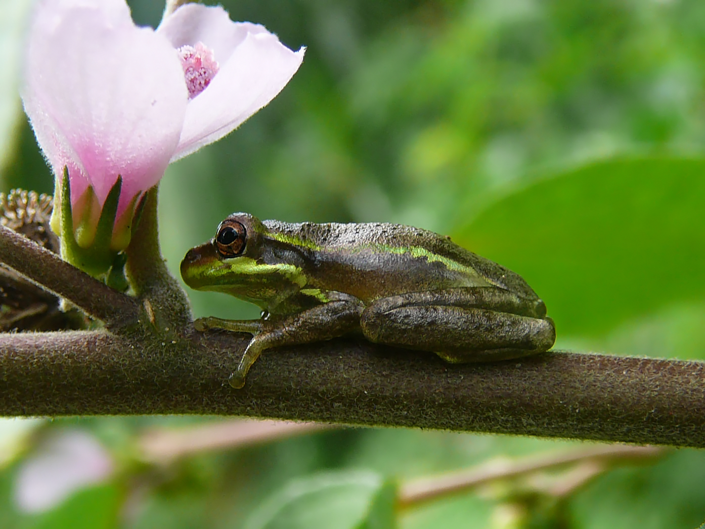 Cuban treefrog, Fern Forest nature center in Coconut Creek Florida.